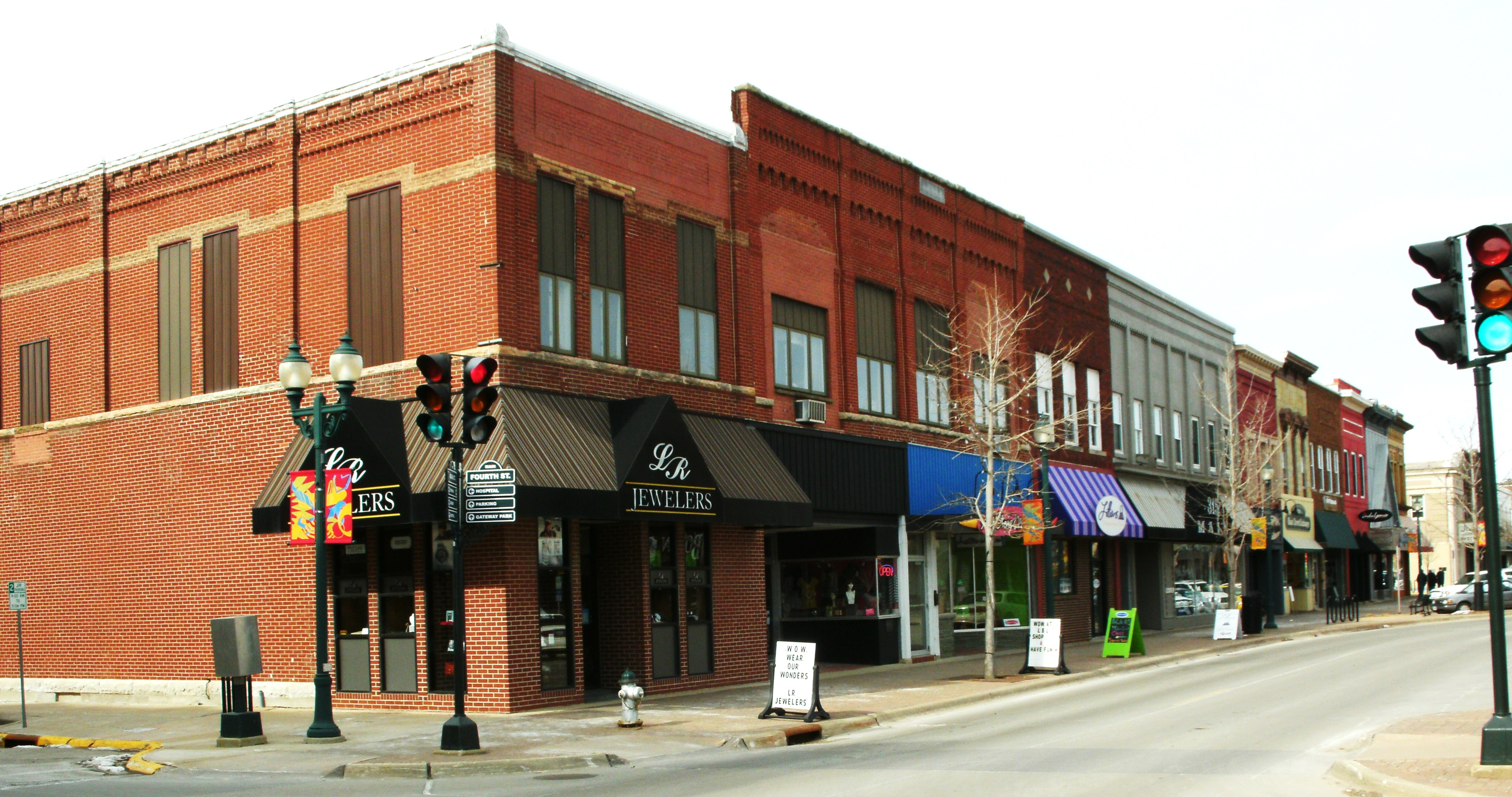 Downtown Main Street between 4th and 3rd Streets in Cedar Falls, Black Hawk County, Iowa